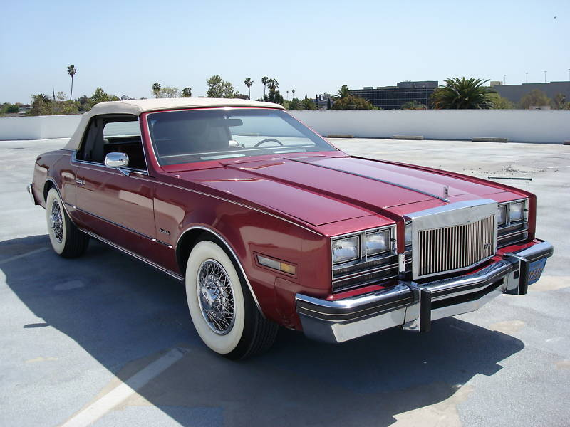 Oldsmobile Toronado convertible, 1984 model. Convertible models were fitted out by the Hess & Eisenhardt